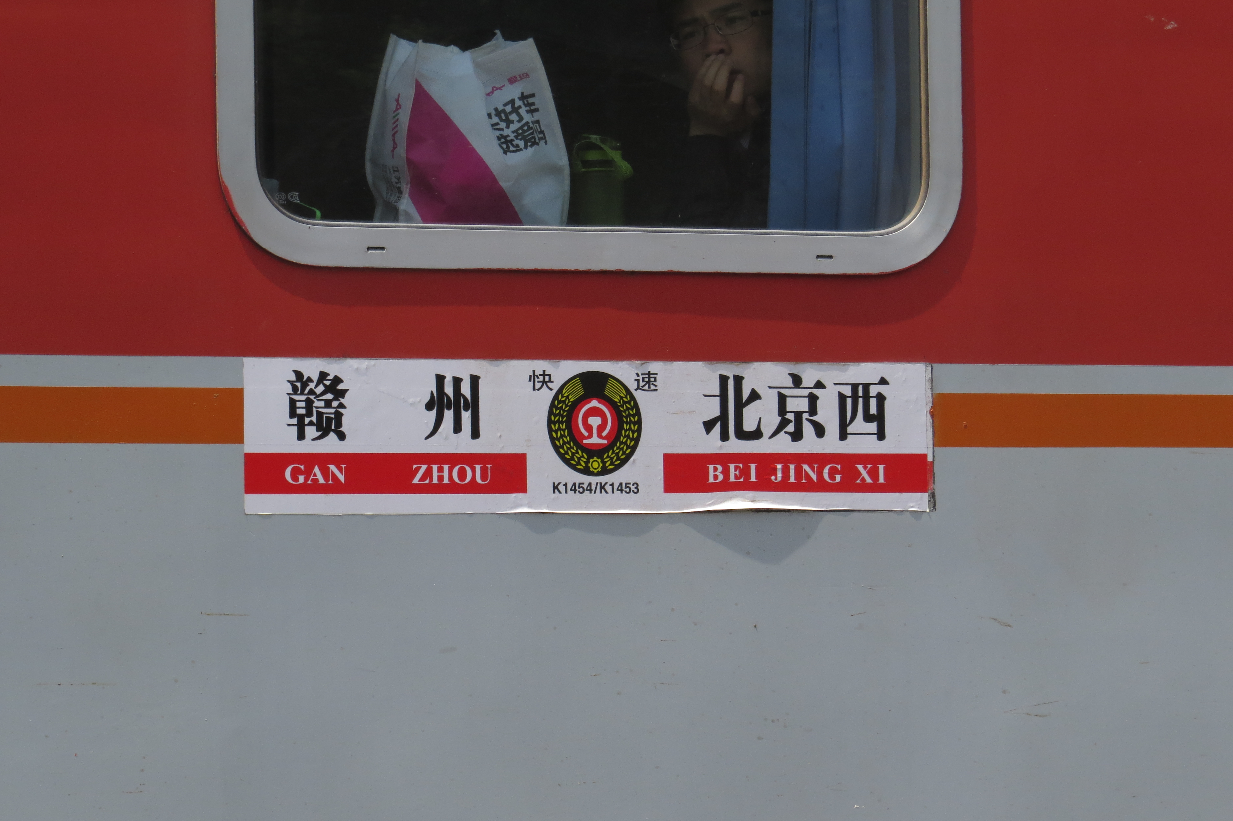 T92 can't withstand this train.